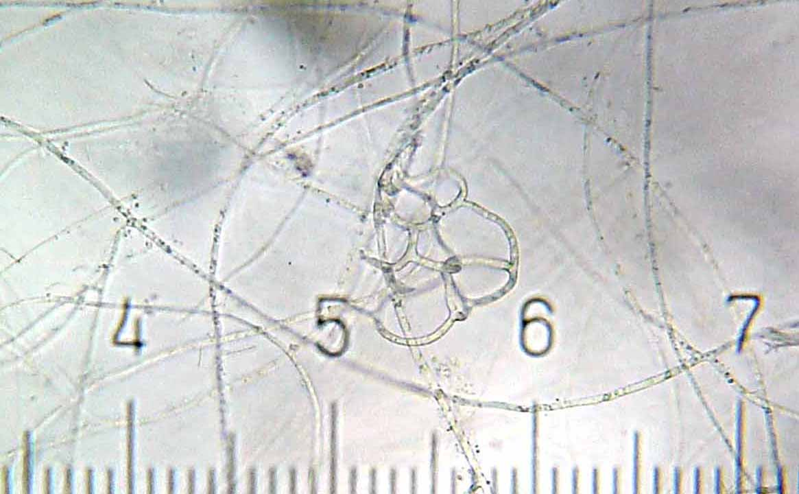 Fungus found growing in my cat's water dish. According to the same expert that kindly identified my sample of Harposporium anguillulae, “this is definitely a nematophagous fungus of the genus Arthrobotrys, probably Arthrobotrys oligospora or Arthrobotrys candida. The structures shown on your image are threedimensional adhesive nets.” See . 10× objective, 15× eyepiece; numbered ticks are 122 µM apart. In the full-sized version of this image, each pixel represents a 0.407-µM square. See also: File:20100814_175958_FungusOnDeadnematode_HarposporiumAnguillulae.jpg File:20100814_180201_FungusOnDeadnematode_HarposporiumAnguillulae.jpg